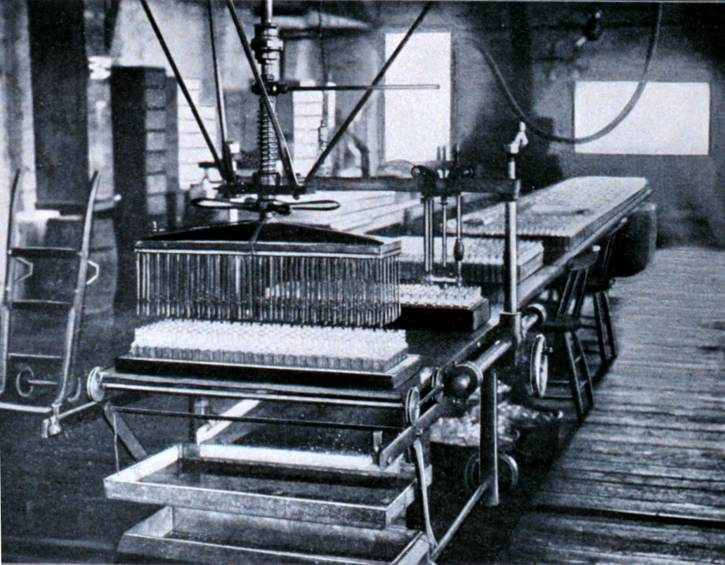 Processing of spermaceti. Interior view of oil refinery. Filling bottles with sperm oil.